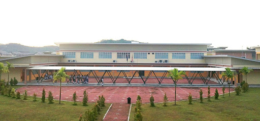 MRSM JOHOR BAHRU